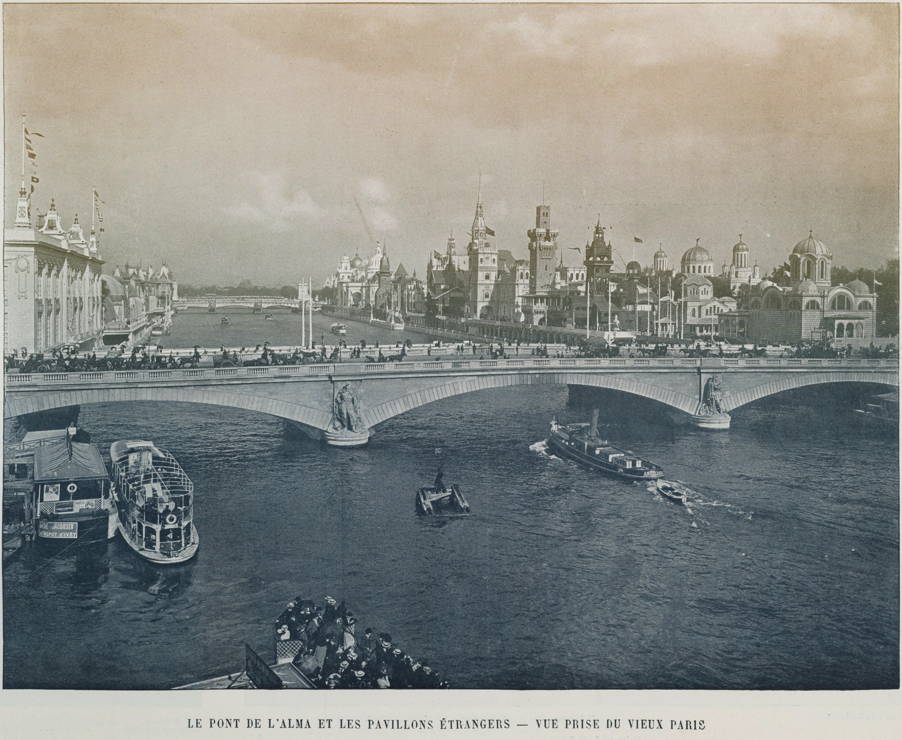 View of the pont de l'Alma and the banks of the River Seine during the 1900 Paris World Fair. The buildings on the right of the image are the foreign pavilions, which were designed and built especially for the Fair.